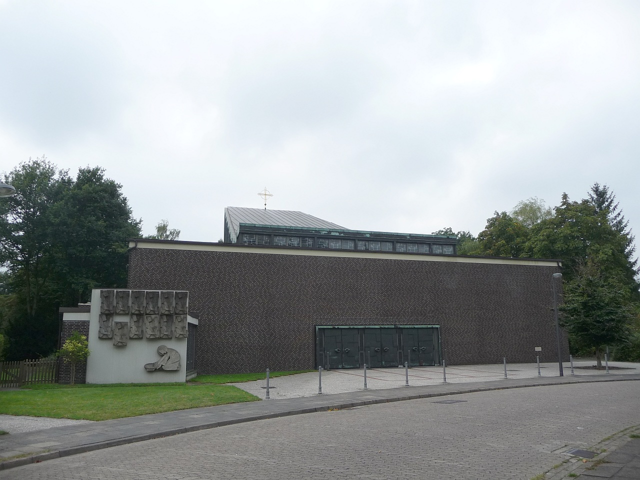 Church St-Willehad in Bremen-Vegesack